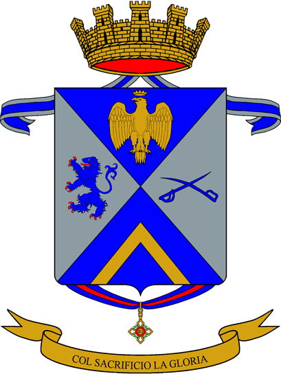 Coat of Arms of the 33° Infantry Regiment; Italian Army.